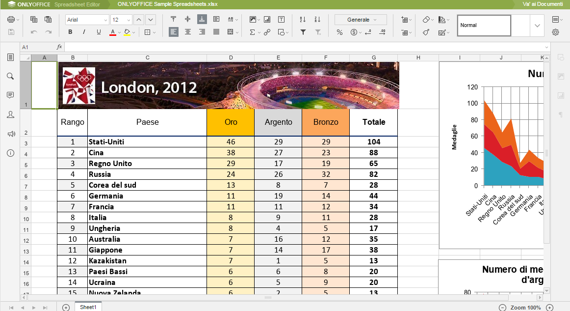 ONLYOFFICE Spreadsheet Editor